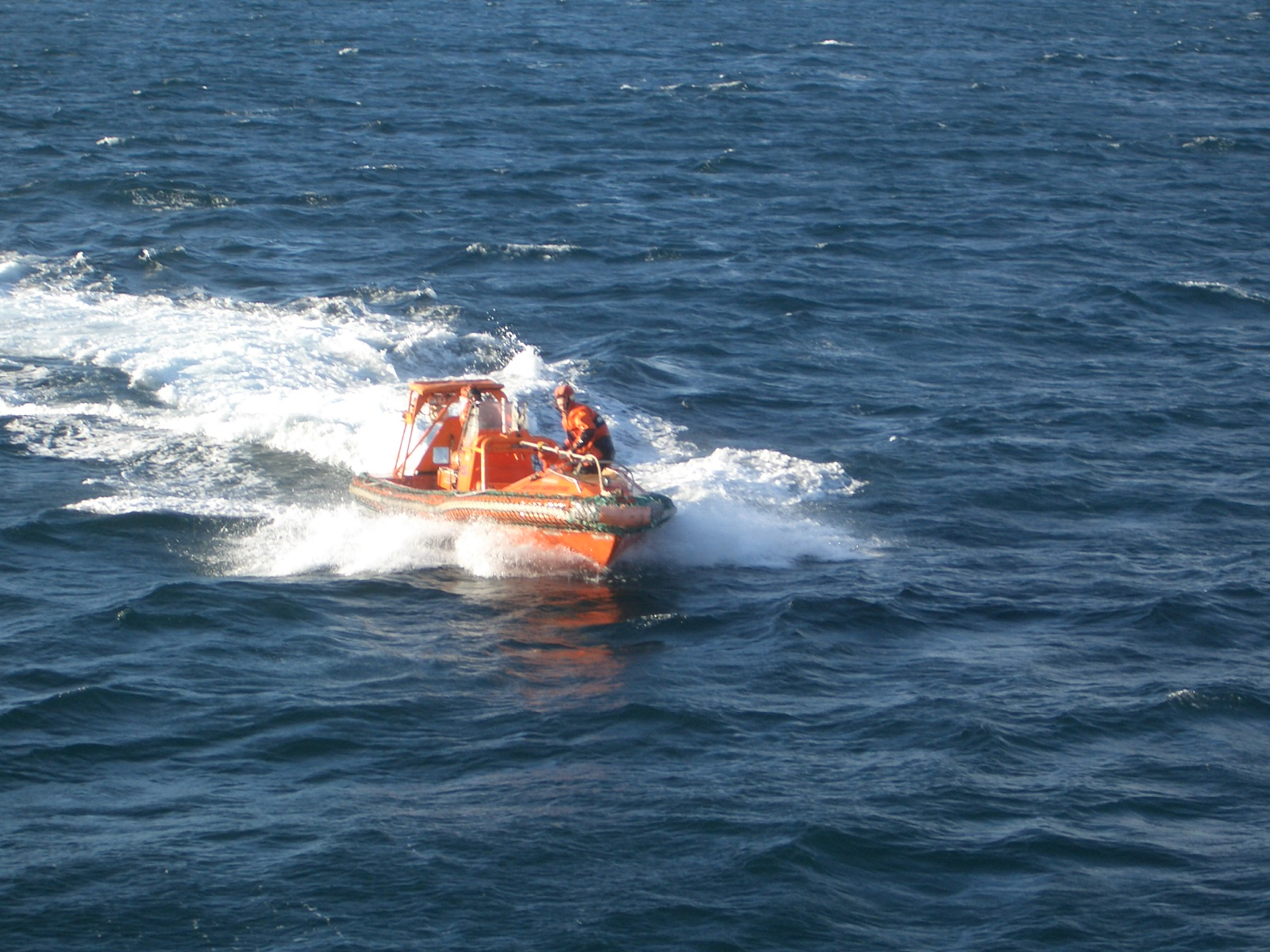 Fast Rescue Craft recovery exercise in San Carlos water, Falkland Islands